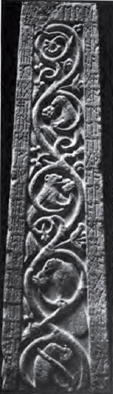 Captioned as "Fig. 16a Ruthwell Cross, East Face, middle (From the Burlington Magazine)."